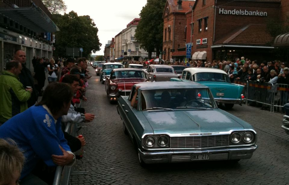 Cruising at Wheels & Wings 2011, Varberg, Sweden.